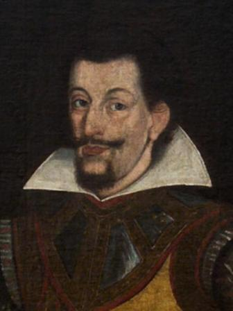 Adam Wenzel, Duke of Teschen